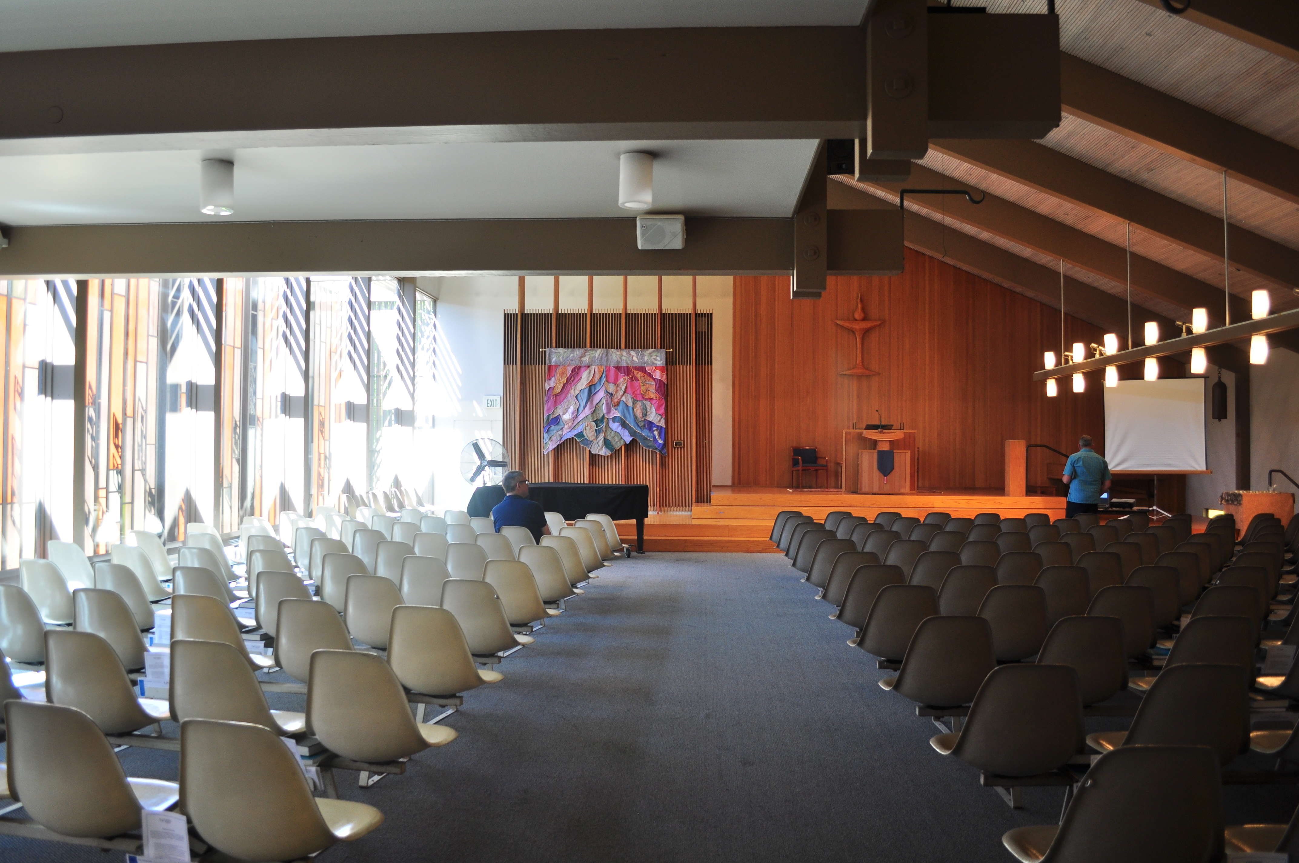 Sanctuary, University Unitarian Church, Bryant neighborhood, Seattle, Washington, U.S.